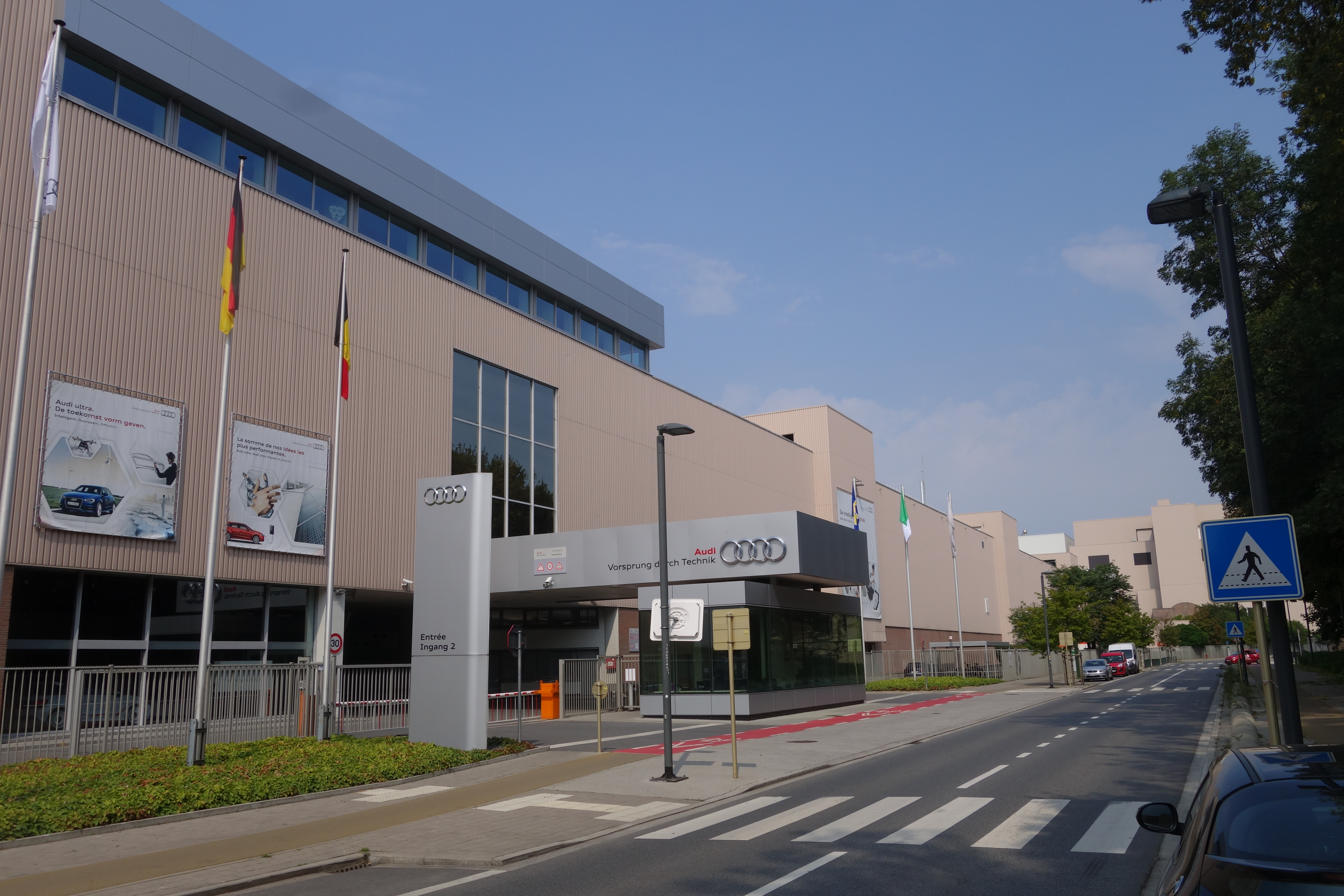 Audi Brussels